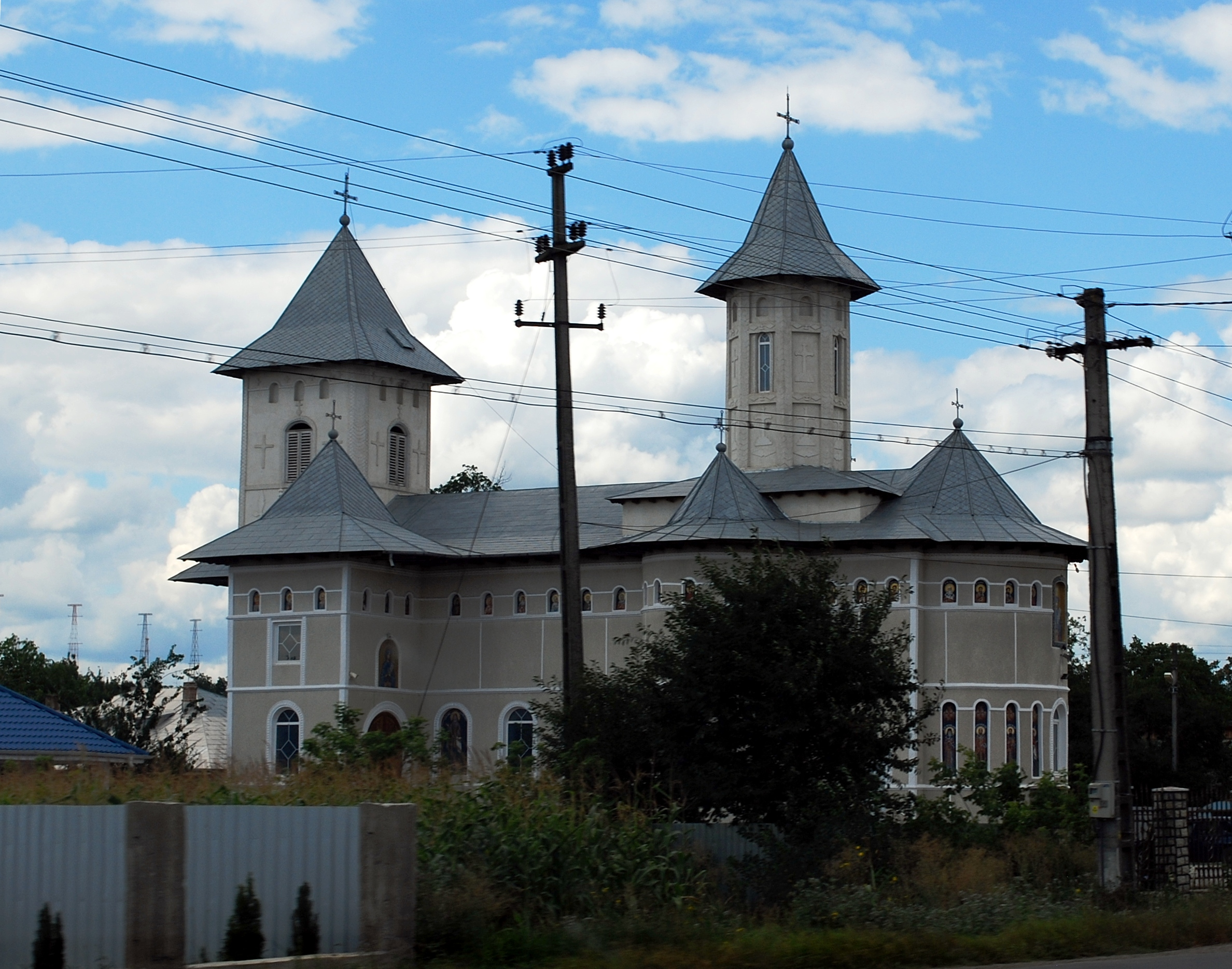 Church in Filipeşti, Bacău County, Romania